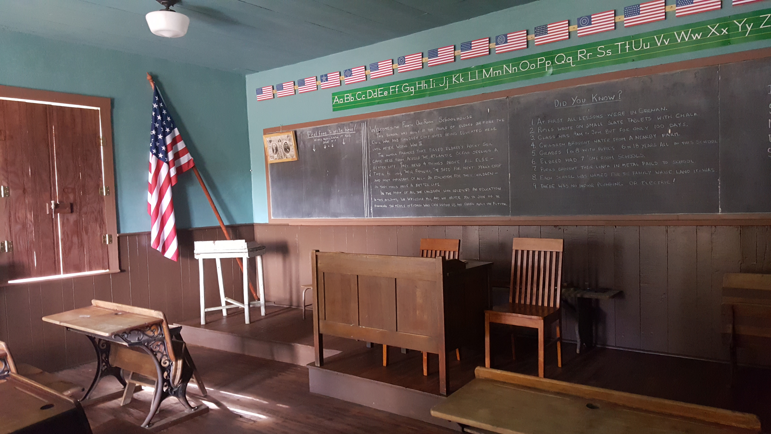 1855 one room schoolhouse in Eldred Township in Monroe County Pennsylvania interior. The school was in use from 1855 to 1945 and restored in 2018. It is now a community resource center.